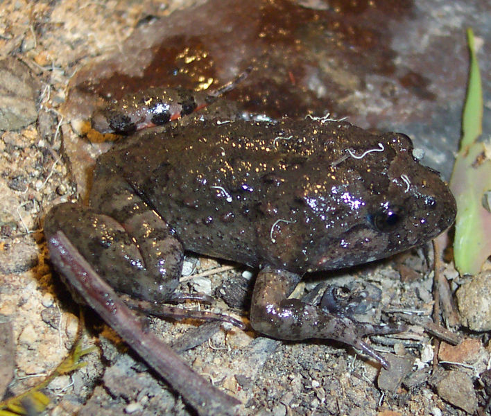 A Tusked Frog, (Adelotus brevis) from Wallingat National Park, New South Wales.